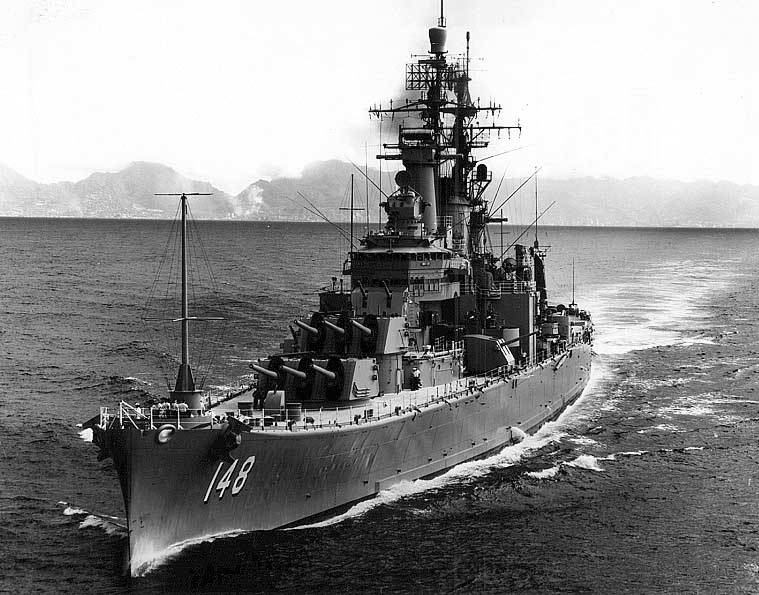 The U.S. Navy heavy cruiser USS Newport News (CA-148) underway in the 1960s.